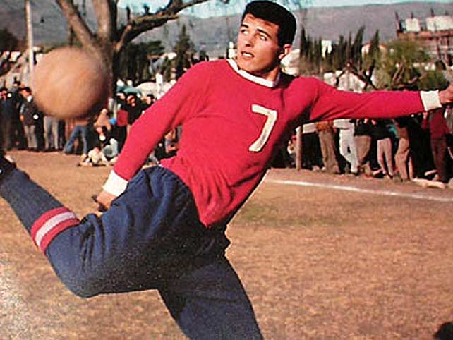 Raúl Bernao while training for Independiente